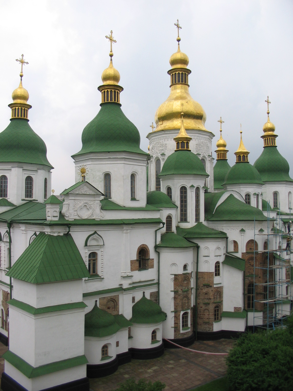 The Saint Sophia Cathedral in Kiev, the capital of Ukraine.